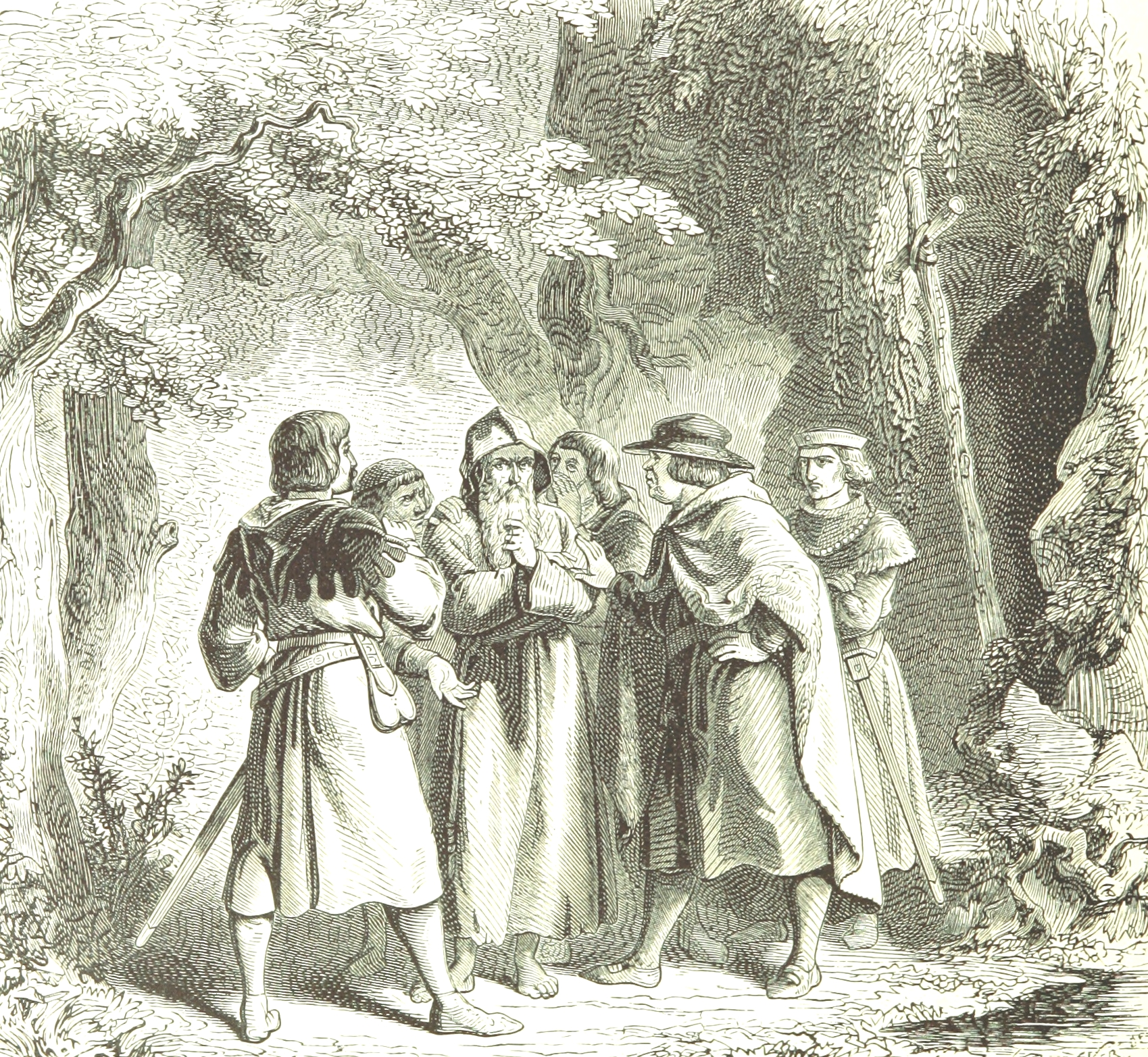 The false Baldwin: a hermit requested to impersonate emperor Baldwin I of Constantinople